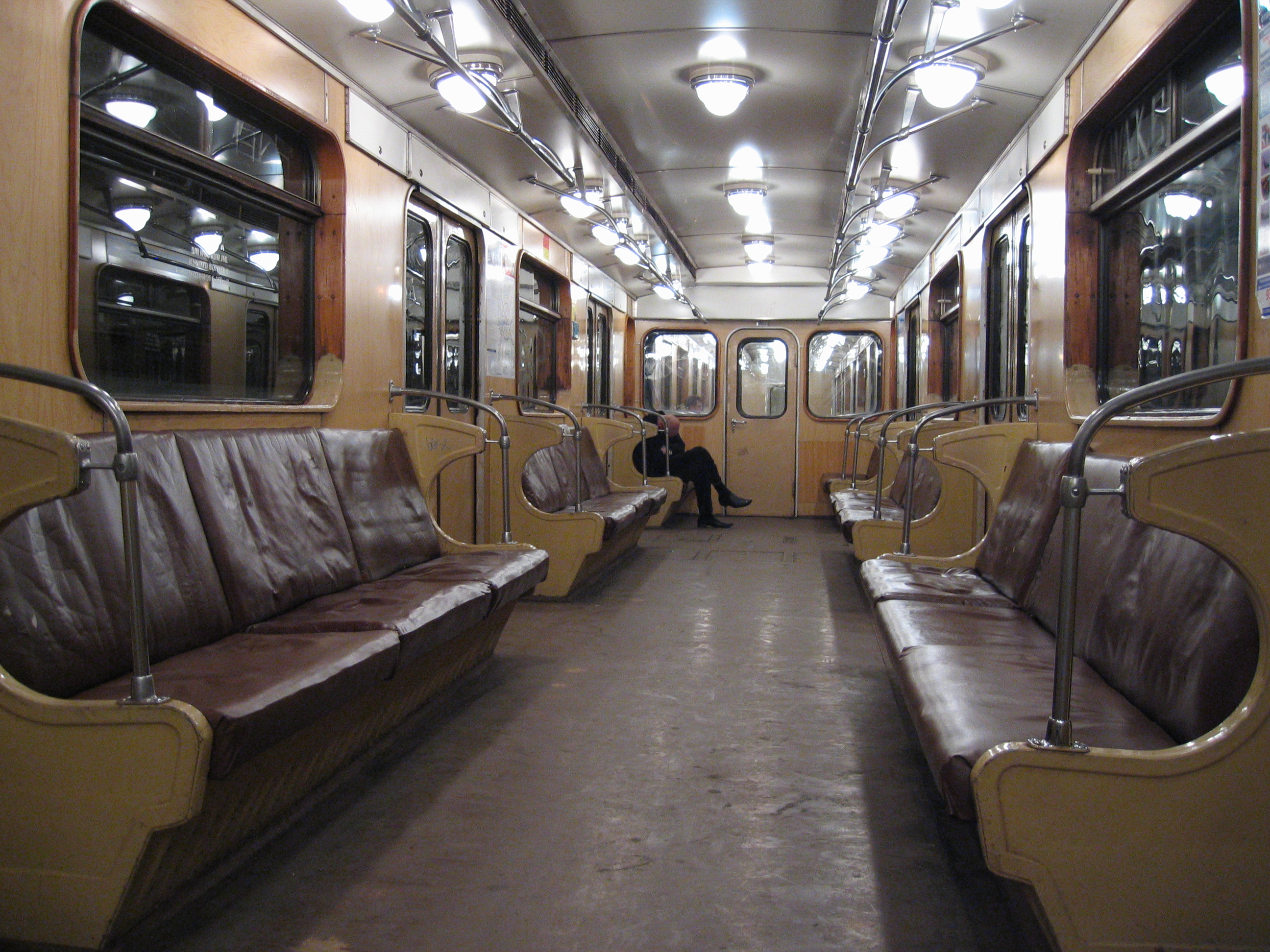 Train Еж, view inside